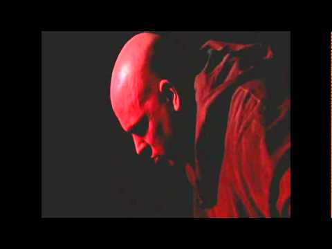 Frankenstein's Creature in Ager's opera